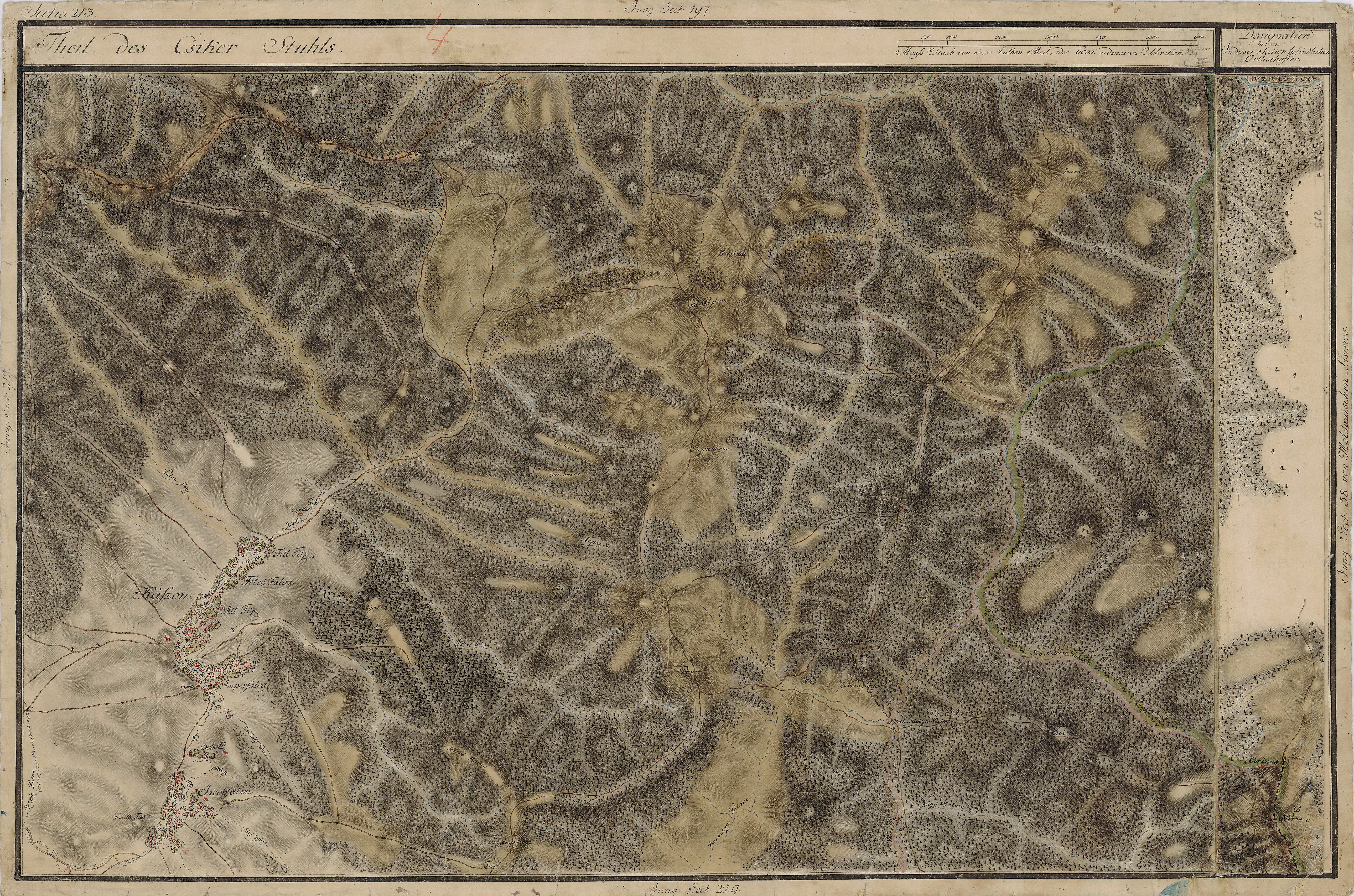 Grand Duchy of Transylvania, 1769-1773. Josephinische Landaufnahme pg.213